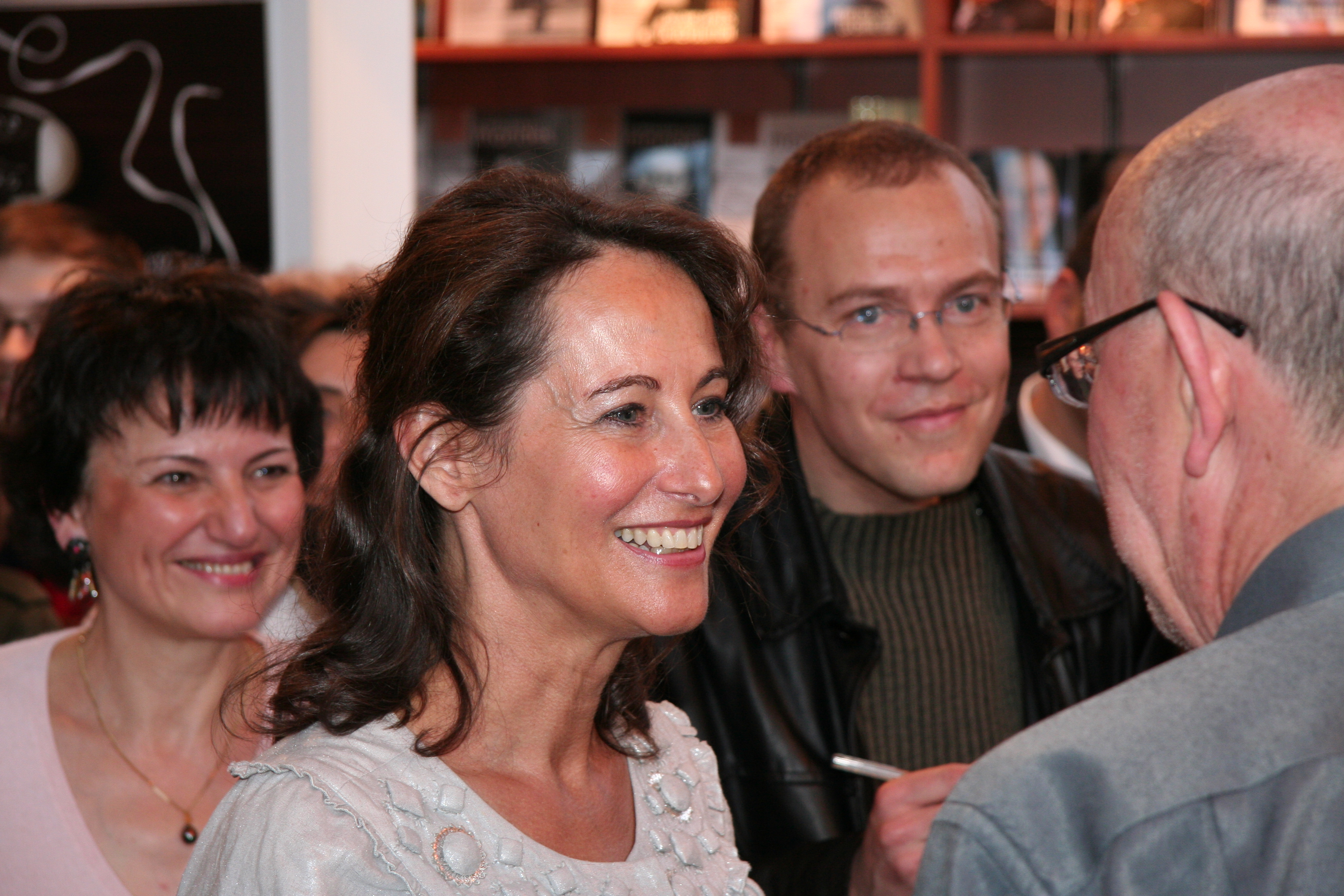 Autograph session with Ségolène Royal at Salon du livre 2009 (Paris, France)